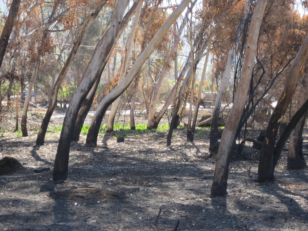 Eucalyptus trees in the San Dieguito River Valley after the firestorm of 2007.